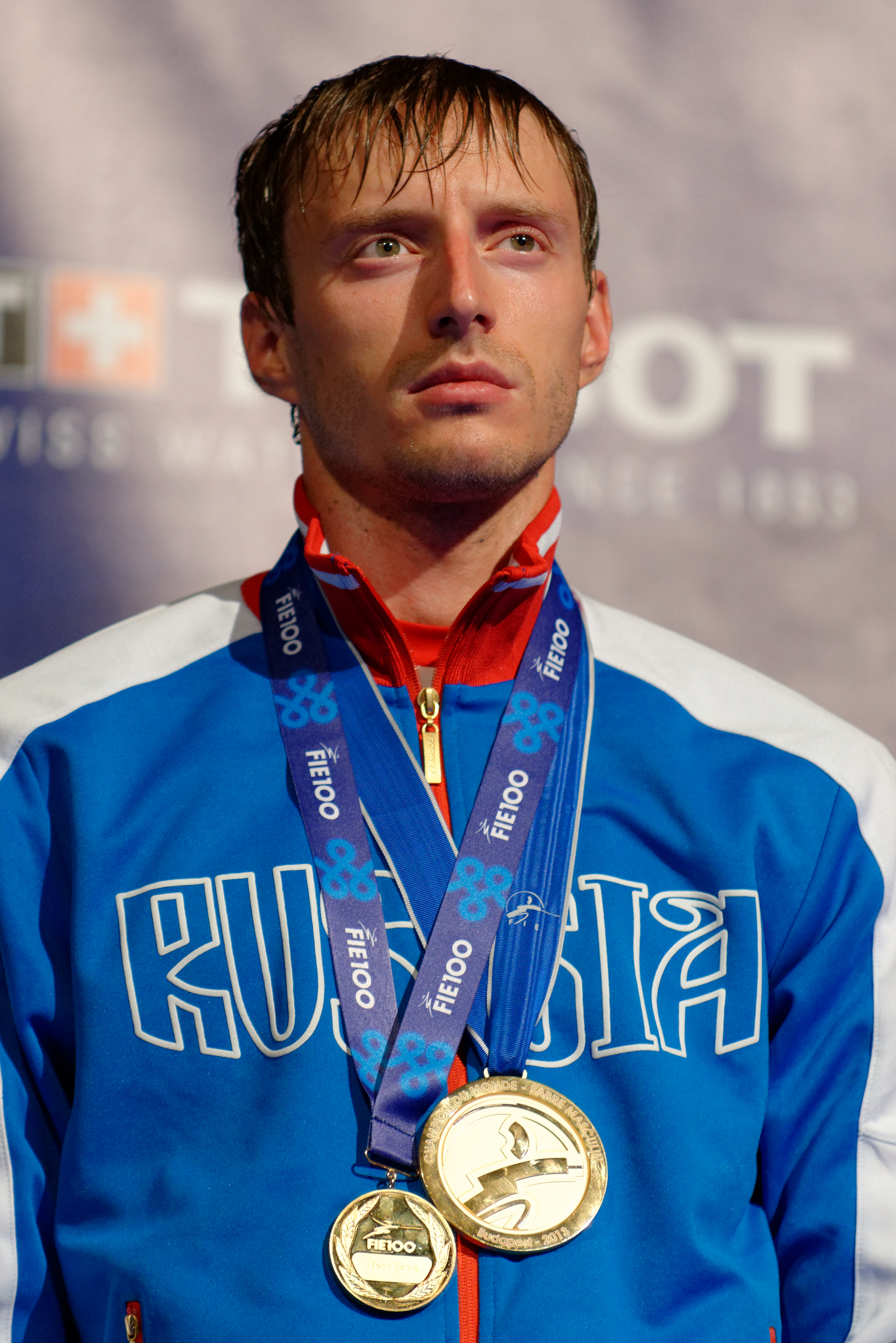 Russia's Veniamin Reshetnikov stands on the men's sabre podium of the 2013 World Fencing Championships 2013 at Syma Hall in Budapest, 10 August 2013.